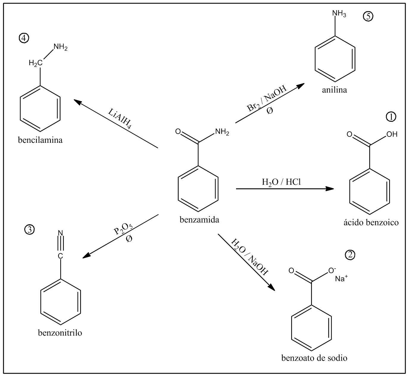 benzamide reactions.